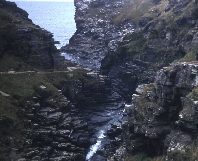 Rocky Valley mouth Looking north where the little gorge carved through the slate meets the sea. The coast path crosses here, but it is possible to take the path on the left for a closer look out to sea.